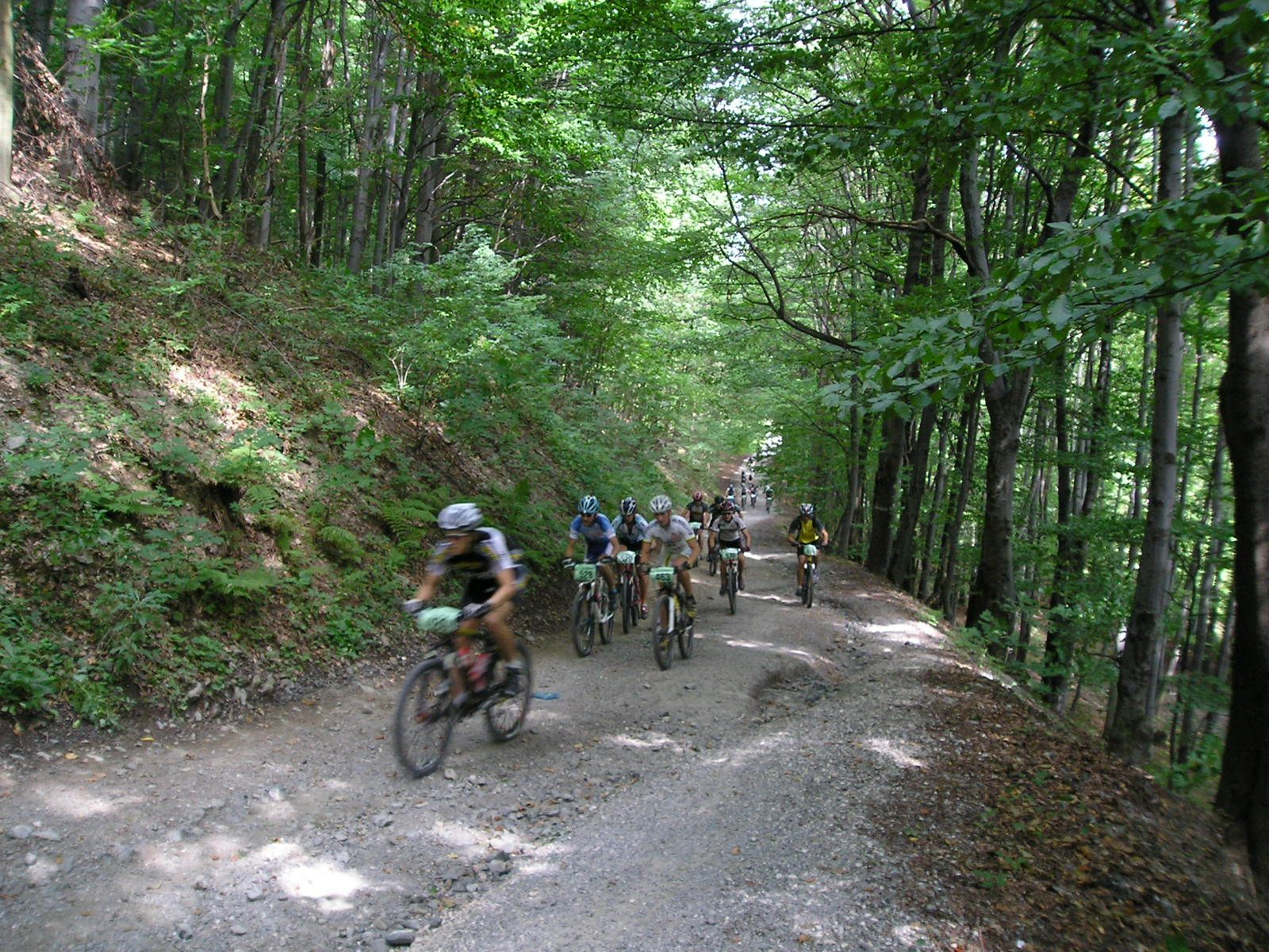 CYKLOMARATÓN-ska MTB séria - 1.košický bikemaratón - Košice